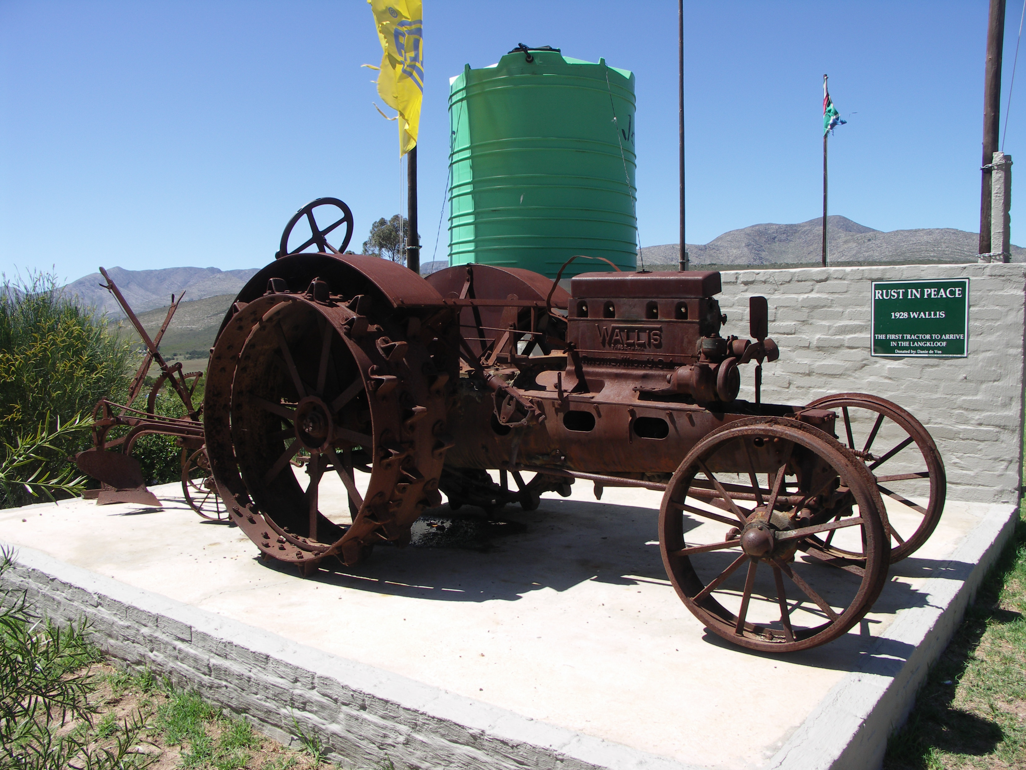 A 1928 Wallis tractor. Next to the R62 road outside Joubertina in the Eastern Cape, South Africa